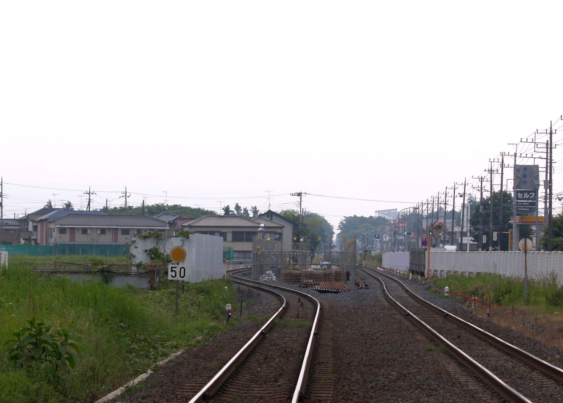 Construction site of Yumemino Station on the Kanto Railway Joso Line, in Toride, Ibaraki, Japan